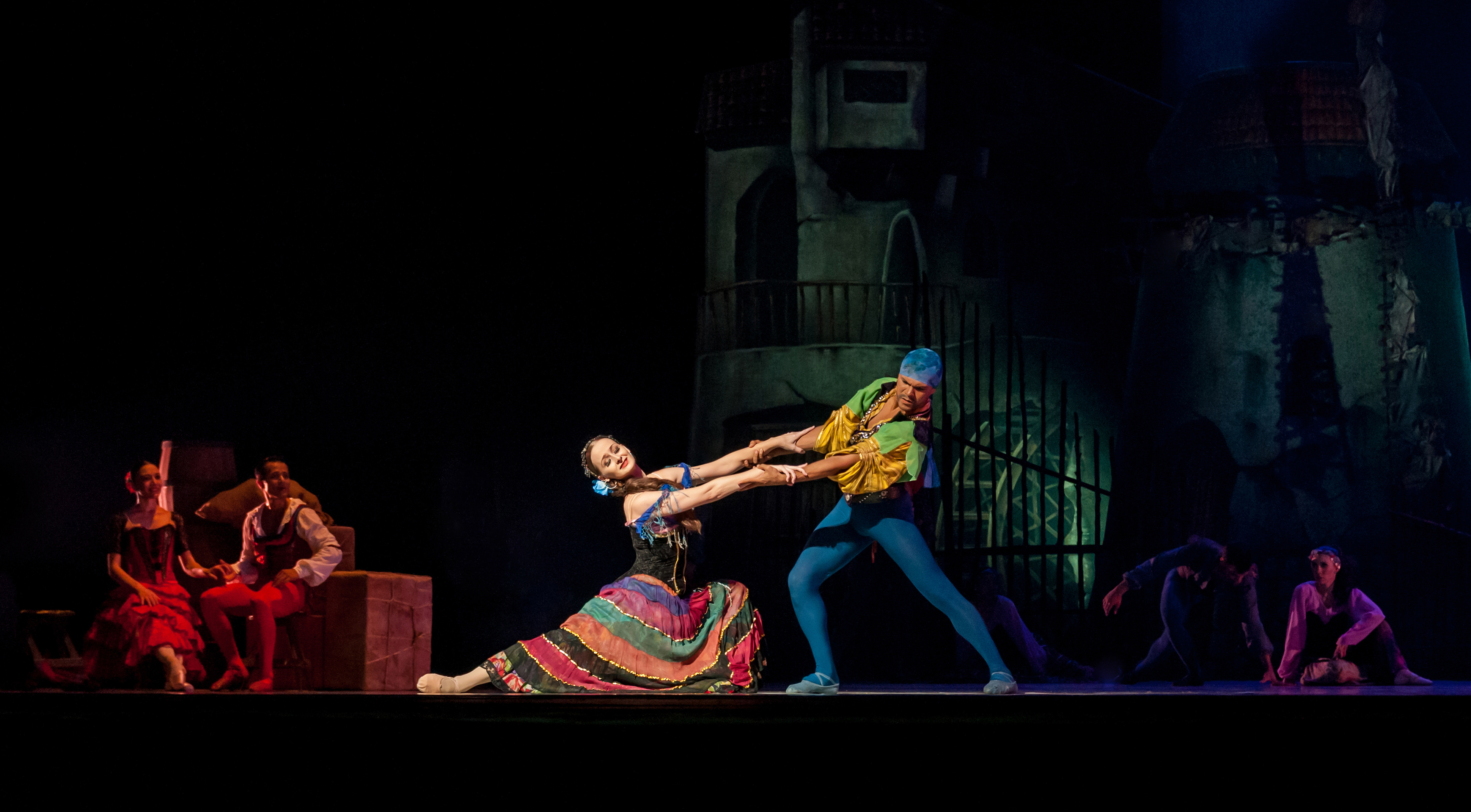 A stage performance of Don Quixote, with music by Ludwig Minkus, choreography by Laura Fiorucci (based on the original by Marius Petipa). Starring Claudia Olaiz, Andrés Villarroel, and Ballet Teresa Carreño. Performed at the Teresa Carreño Theatre in Venezuela on 18 October 2013.